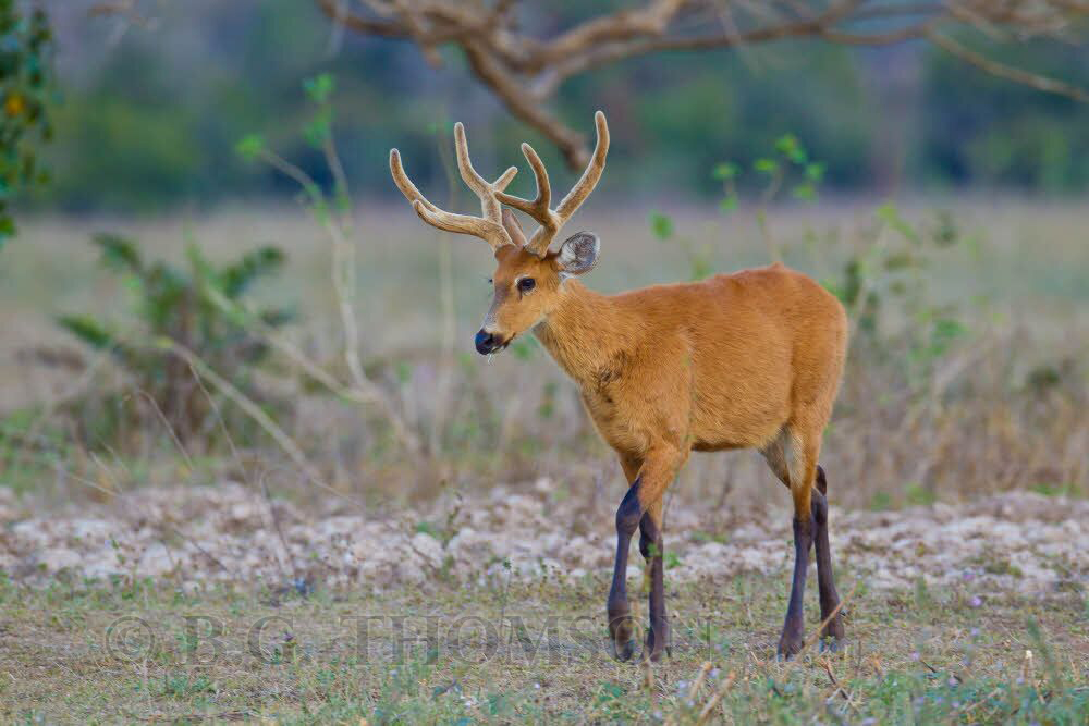 A male marsh deer in Brazilian Pantanal.